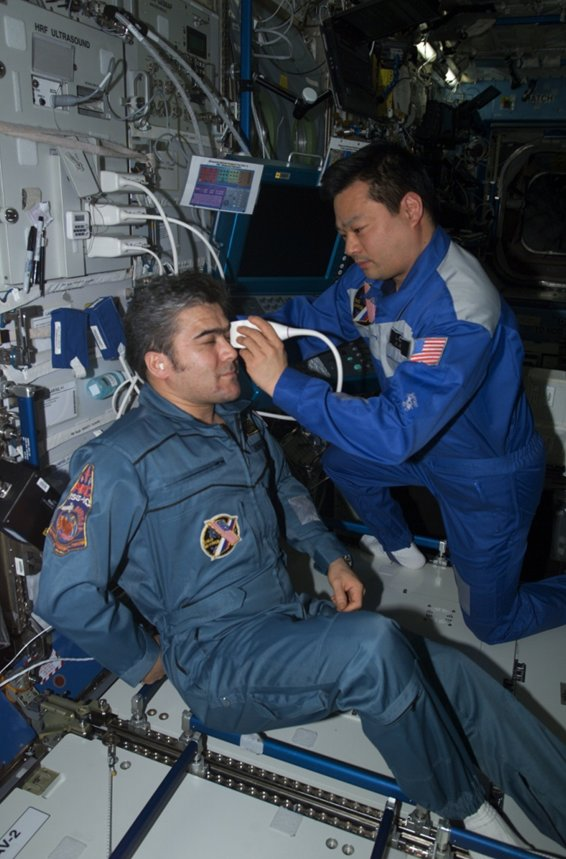 Using the Advanced Diagnostic Ultrasound in Microgravity (ADUM) protocols, ISS Expedition Commander Leroy Chiao performs an ultrasound examination of the eye on Flight Engineer Salizhan Sharipov (NASA)